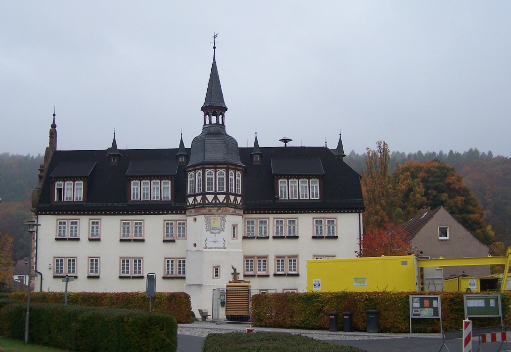 The castle in Frauensee.